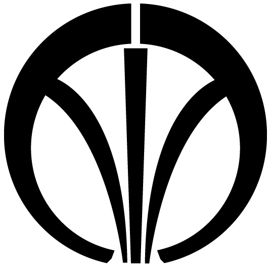 Iizuka fukuoka chapter